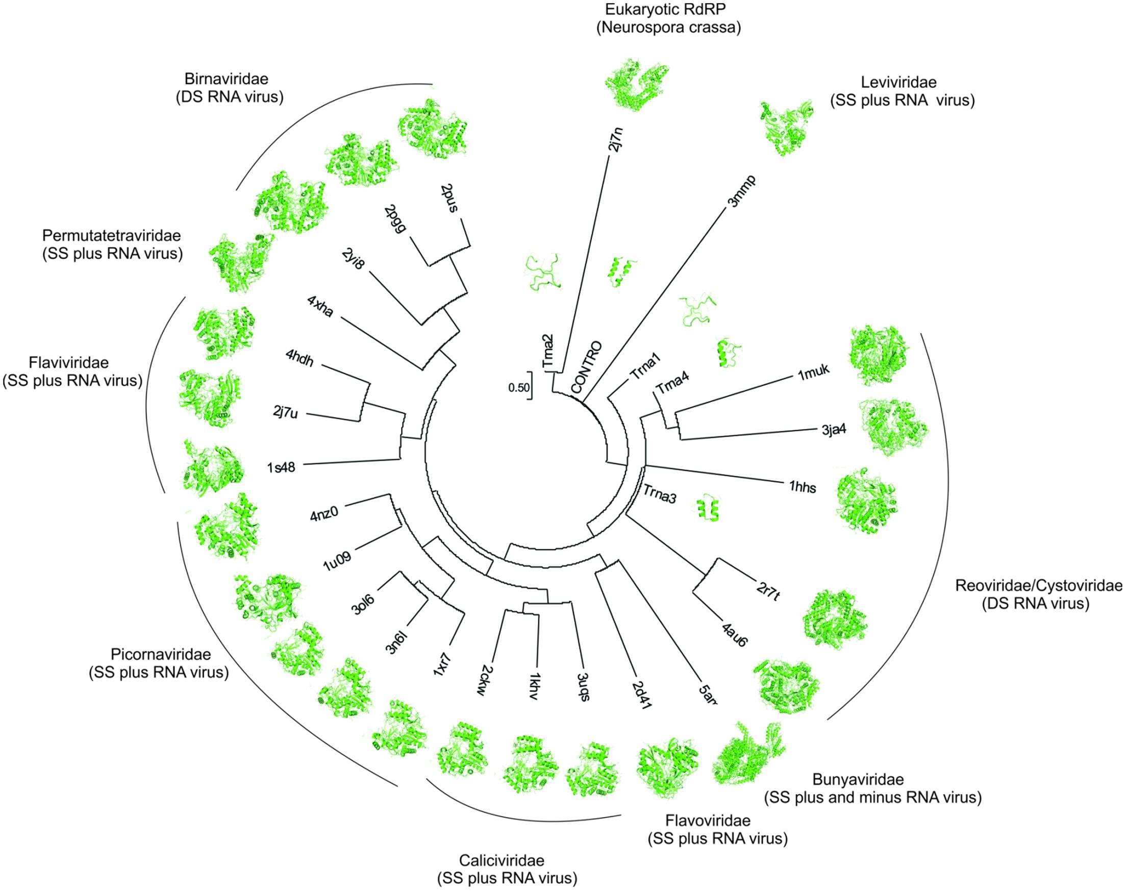 The structural distance phylogenetic tree. tRNA 1, tRNA 2, tRNA 3, tRNA 4, control (contro), RNA Polymerase DSRNA Bacteriophage (PDB: 1HHS); RNA Polymerase Rabbit Hemorrhagic Disease Virus (PDB: 1KHV); RNA Polymerase Sapporo Virus (PDB: 2CKW); Hepatitis C RNA Polymerase (PDB: 2D41); Neurospora Crassa RNA Polymerase (PDB: 2J7N); RNA Polymerase Birnavirus (PDB: 2PGG); RNA Polymerase Infectious Bursal Disease Virus (PDB: 2PUS); RNA Polymerase Rotavirus (PDB: 2R7T); RNA Polymerase Infectious Pancreatic Necrosis Virus (PDB: 2YI8); RNA Polymerase Cypoviruses (PDB: 3JA4); Enterovirus A RNA Polymerase (PDB: 3N6L); RNA Polymerase Norwalk Virus (PDB: 3UQS); RNA Polymerase Rotavirus A (PDB: 4AU6); RNA Polymerase Thosea Assigns Virus (PDB: 4XHA); Rhinovirus A (PDB: 1XR7); Enterovirus C (PDB: 3OL6); Foot-and-Mouth Disease Virus (PDB: 1U09); Cardiovirus A (PDB: 4NZ0); Japanese Encephalitis Virus (PDB: 4HDH); Dengue Virus (PDB: 2J7U); Bovine Viral Diarrhea Virus 1 (PDB: 1S48); Qbeta Virus (PDB: 3MMP); Reovirus (PDB: 1MUK); and La Crosse Bunyavirus (PDB: 5AMQ).